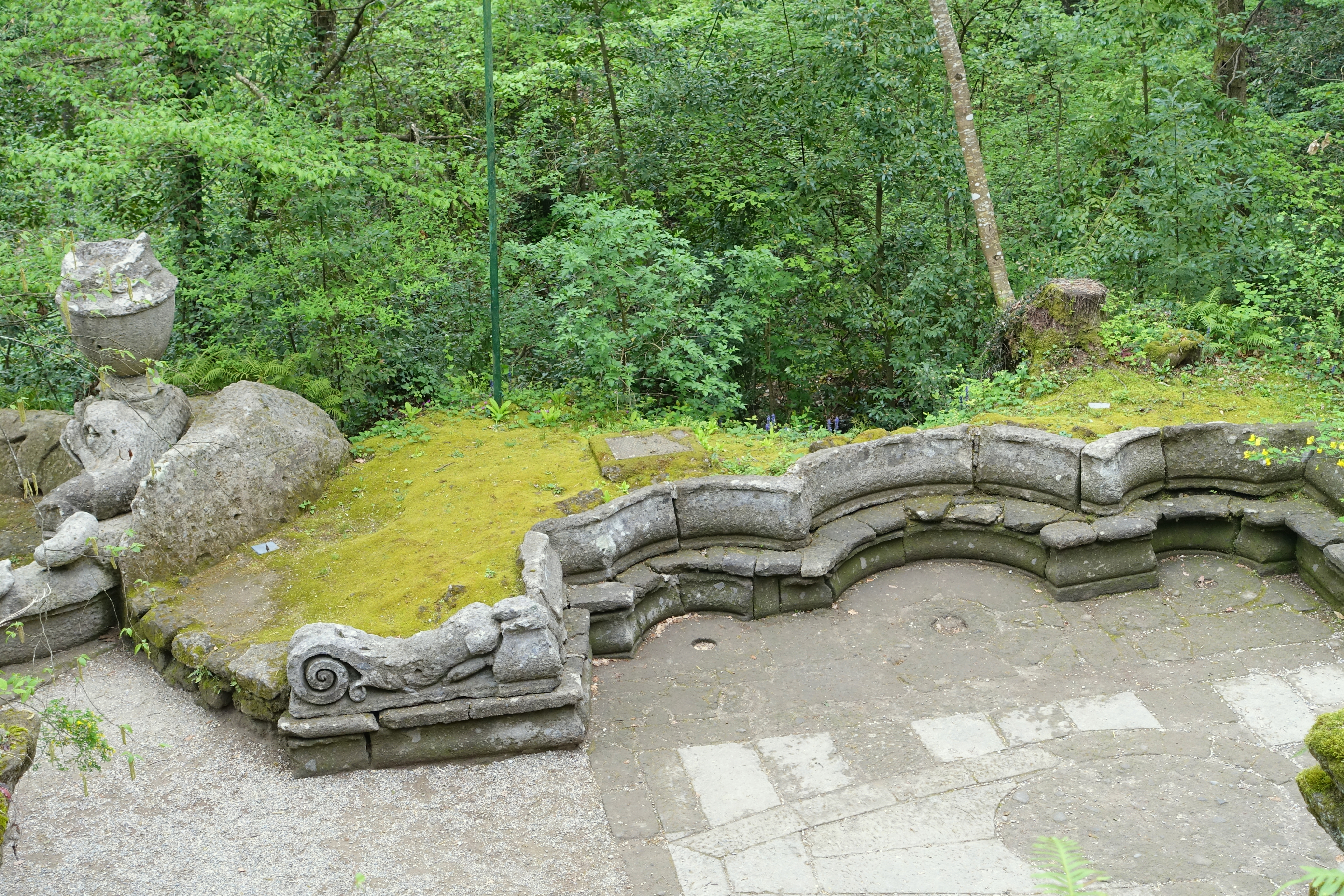 Parco dei Mostri - Bomarzo, Italy.